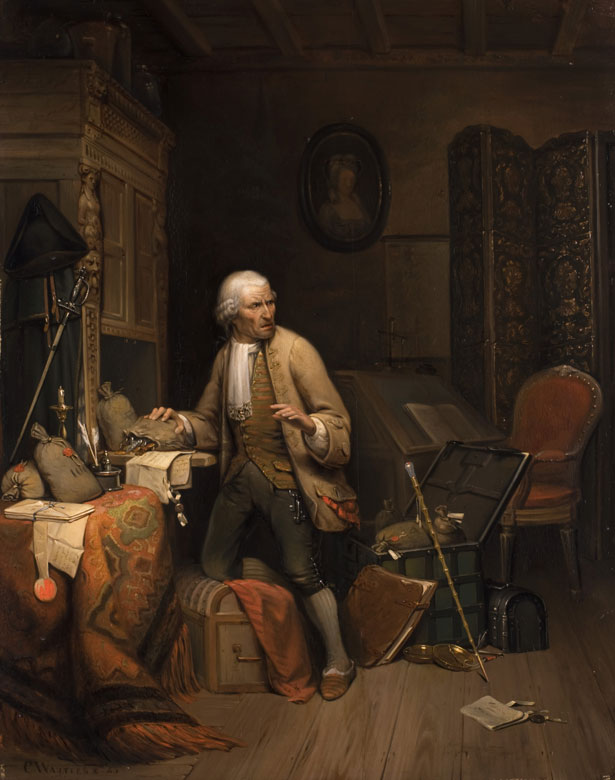 The servant as a thief, oil on panel, signed, 50 x 39,5 cm